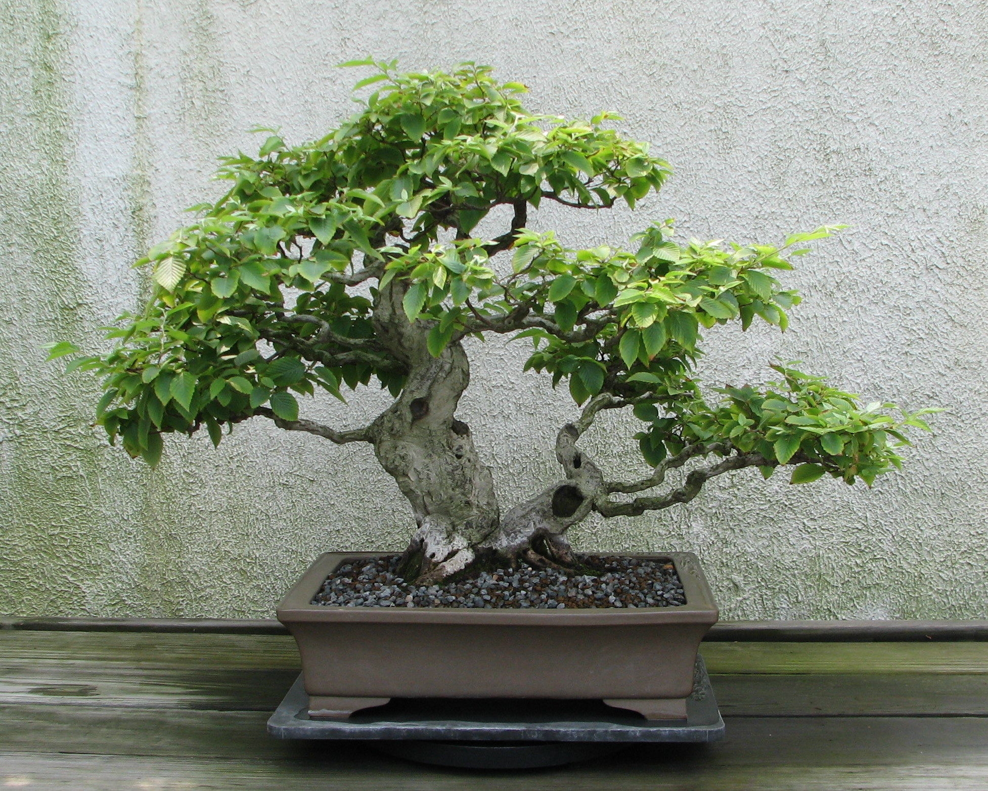 A Hornbeam (Carpinus tschonoskii) bonsai on display at the National Bonsai & Penjing Museum at the United States National Arboretum. According to the tree's display placard, it has been in training since 1935. It was donated by Minoru Koshimura. This is the "back" of the tree.